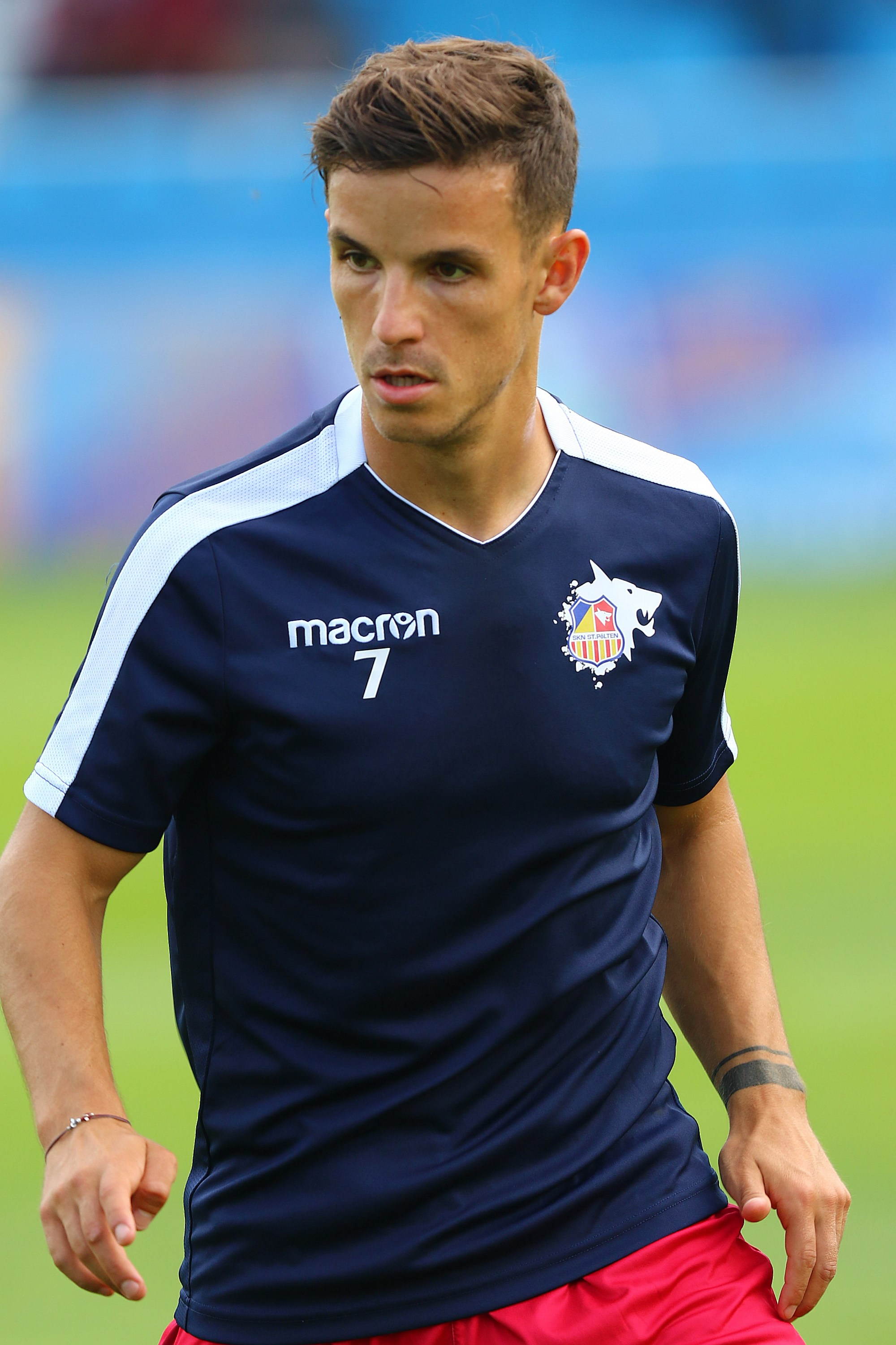 Football qualification match for the Austrian Bundesliga - SC Wiener Neustadt (white shirts) vs. SK St. Pölten (red shirts) 0-2. – The photo shows Daniel Luxbacher (SKN St. Pölten).